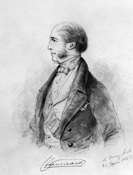 Portrait of Ulick de Burgh, 1st Marquess of Clanricarde.